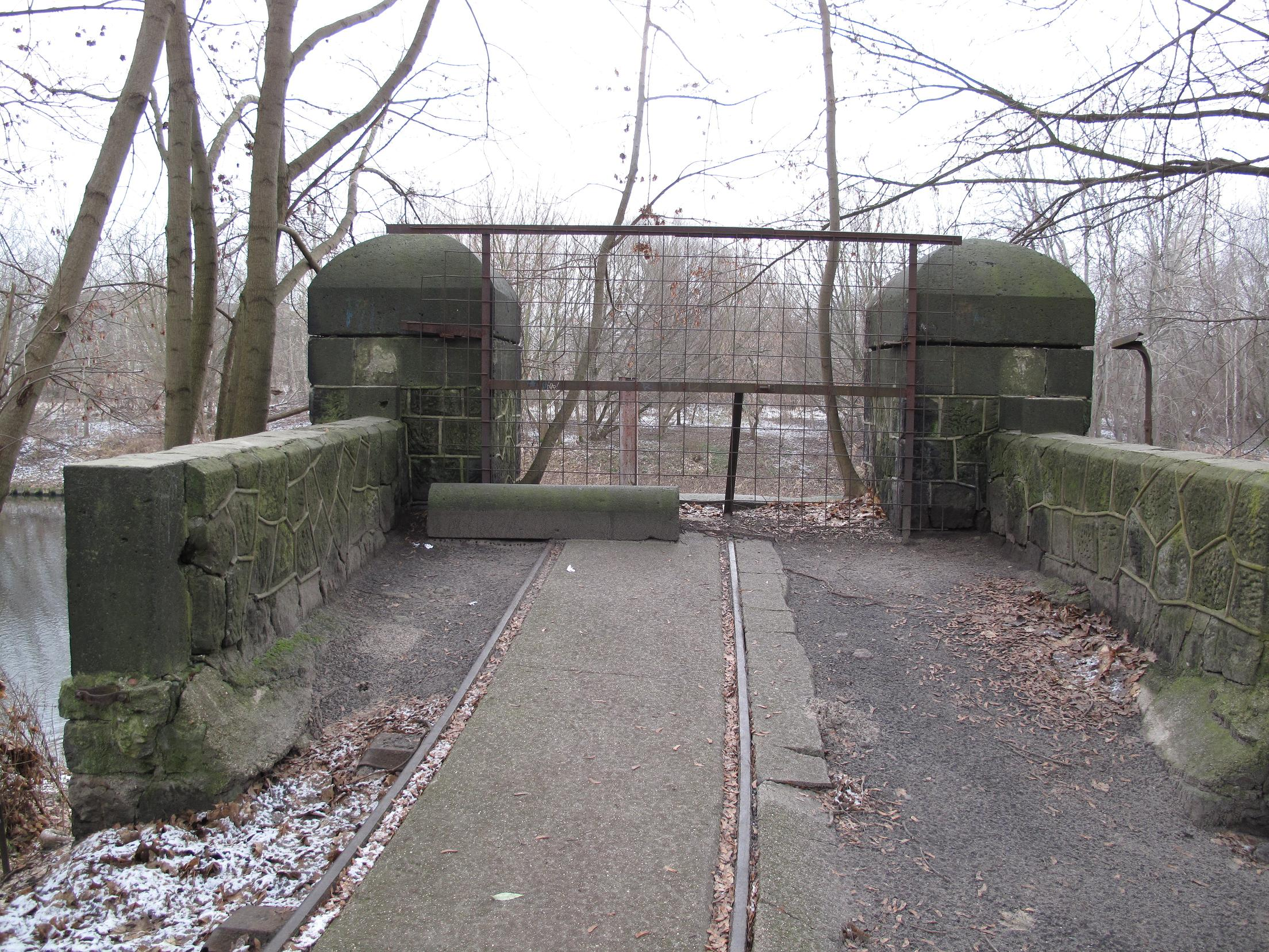 Remains of the former Teltow-Werft-Brücke in Berlin-Zehlendorf with tracks of the tow-railway. The Teltow-Werft was a shipyard and maintenance yard for the tow-locomotives of the Teltowkanal (canal). The bridge was crossing the canal for the locomotives and was also used by pedestrians.